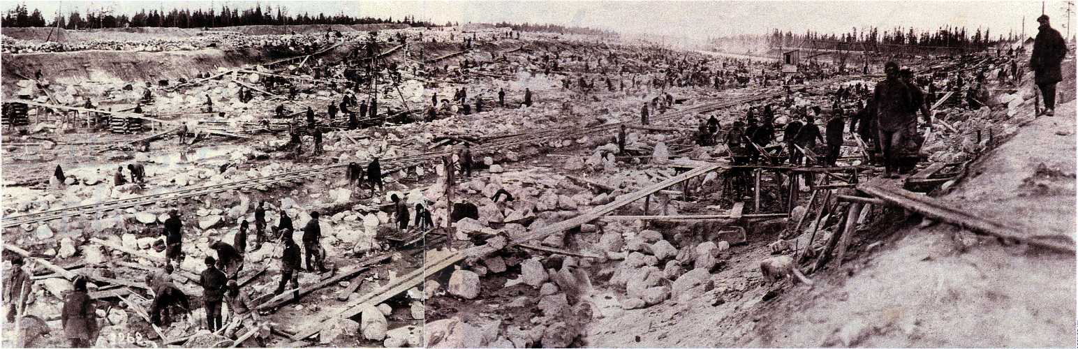 Panorama view of work at White Sea Canal (Belomorkanal) between lake ladoga and the white sea in the Soviet Union (from october 16, 1931 until august 30, 1933). As depicted most of the work has been done manually by forced labour.